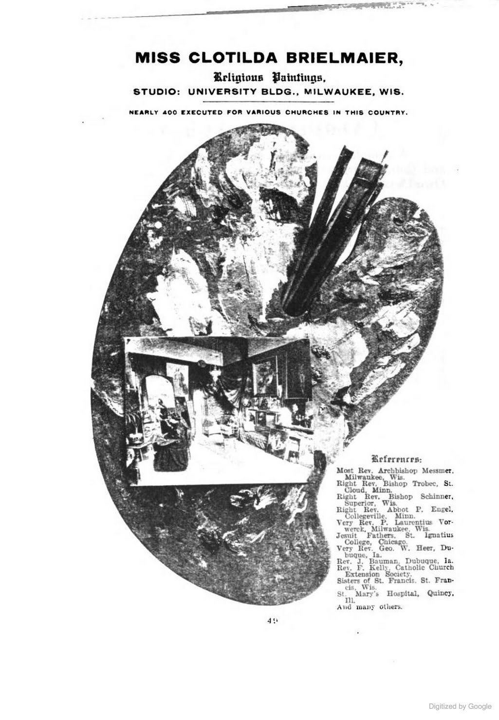 Miss Clotilda Brielmaier Religious Paintings Studio: University Building, Milwaukee, Wisconsin Nearly 400 executed for various churches in this country